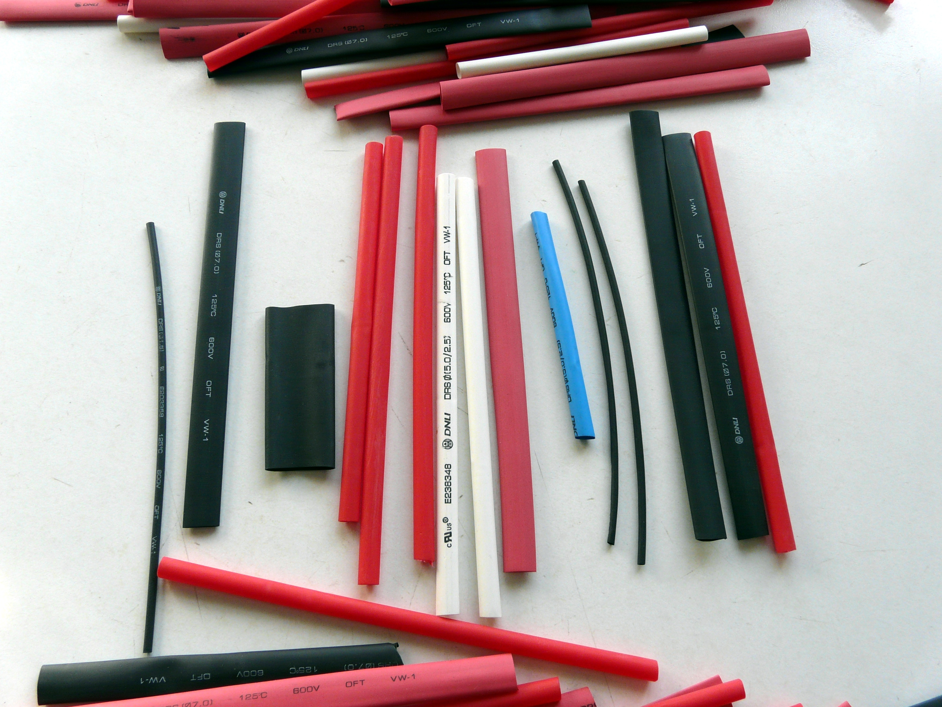 Shrink wrap